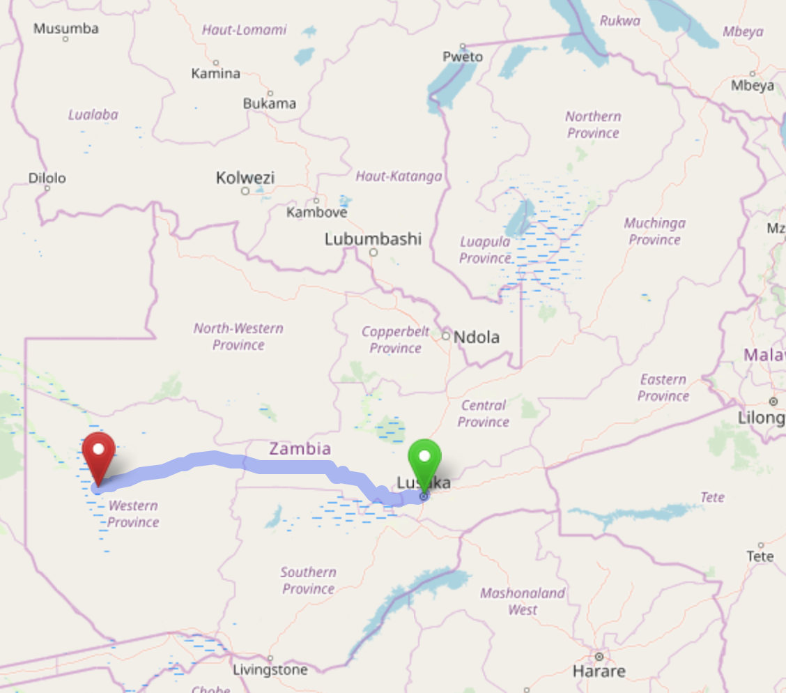 Map of the Great West Road in Zambia This map of Zambia was created from OpenStreetMap project data, collected by the community. This map may be incomplete, and may contain errors. Don't rely solely on it for navigation.